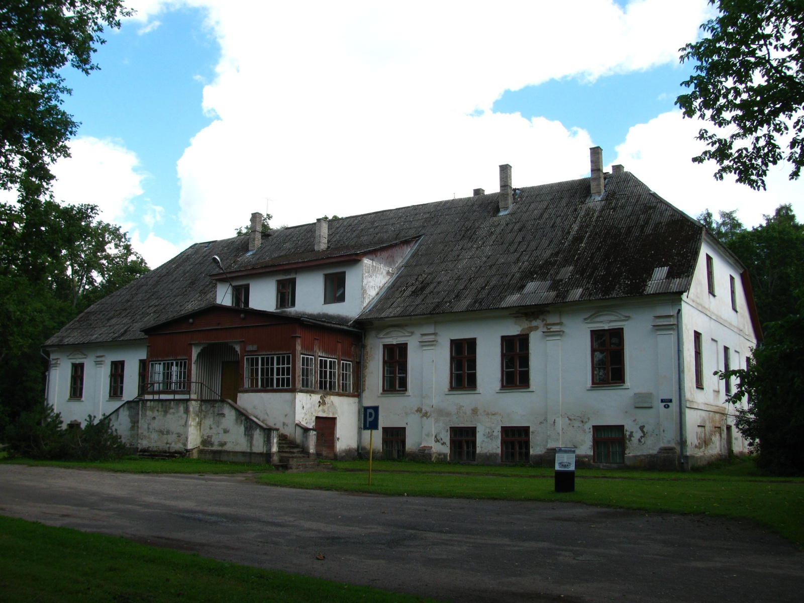 Helme manor house